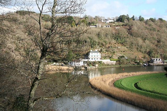 Calstock: Danescombe Valley House Seen from near the chapel on the National Trust’s Cothele estate, Danescombe Valley House is marked as an hotel on the Ordnance Survey, but may well now be a private residence. By one of the sharp turns on the Tamar at its confluence with the Danescombe